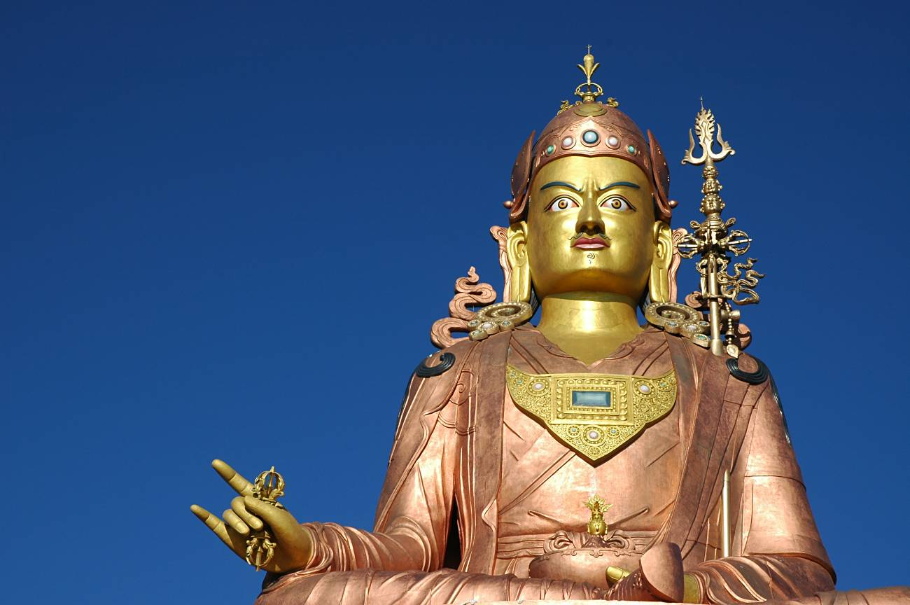 Statue of Guru Rinpoche (Padmasambhava), the patron saint of Sikkim. The statue in Namchi (Samdrumptse) is the tallest statue of the saint in the world at 36 m.